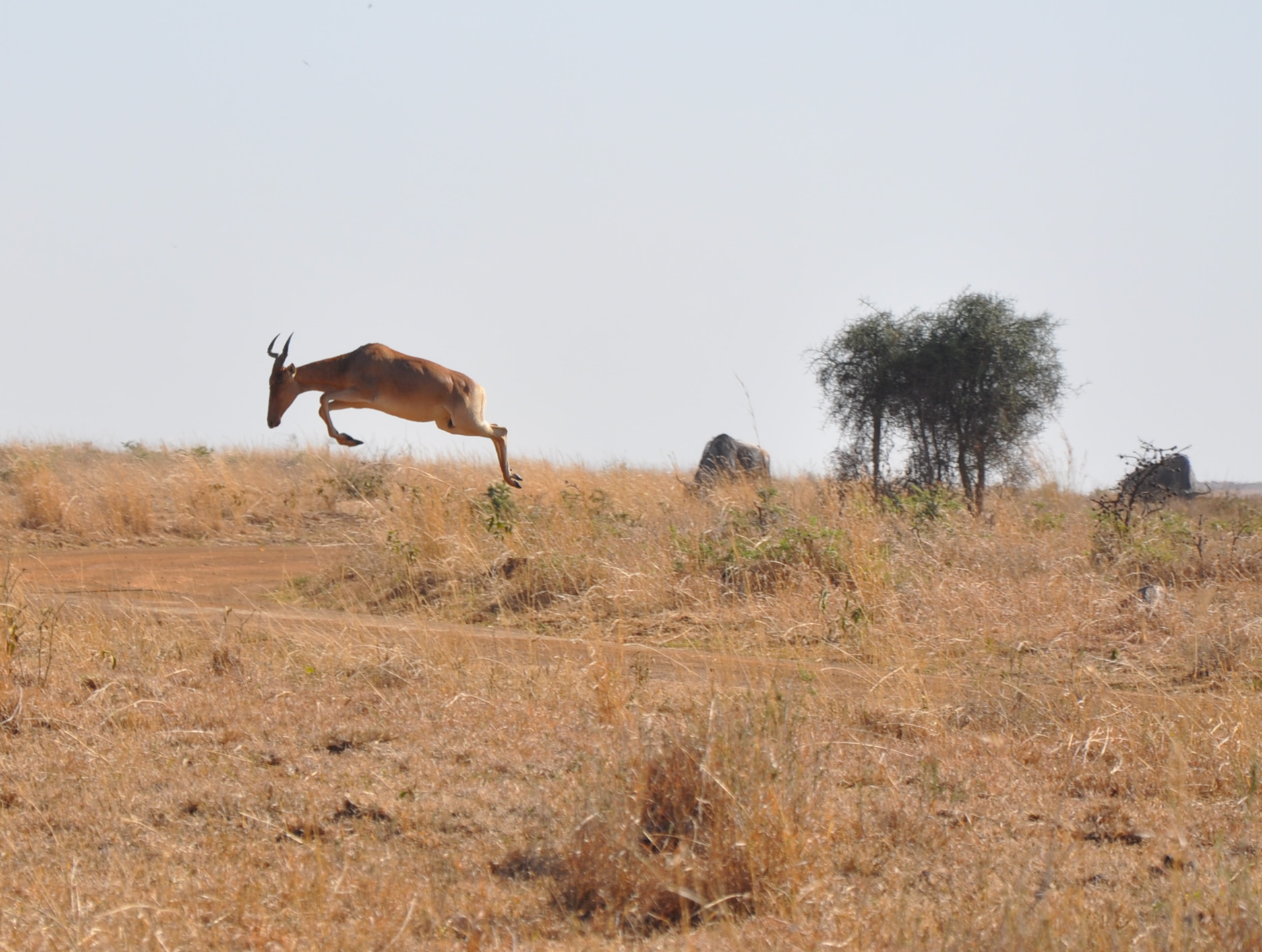 Coke's Hartebeest (Alcelaphus buselaphus cokii) or Kongoni is an antelope native to Kenya and Tanzania. The Hartebeest stands almost 1.5 m (5 ft) at the shoulder and weighs anywhere from 120-200 kg (265-440 lb). Male Hartebeest are a dark brown colour while females are yellow brown. Both sexes have horns which can reach lengths up to 70 cm (27 in). Hartebeest live in grassland and open forest where they eat grass. They are diurnal and spend the morning and late afternoon eating. Herds contain five to twenty individuals but can occasionally contain up to three hundred and fifty